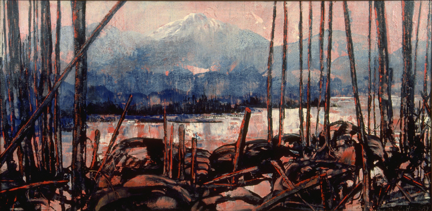 From Here to Eternity, a 1973 painting by Carle Hessay (1911-1978)